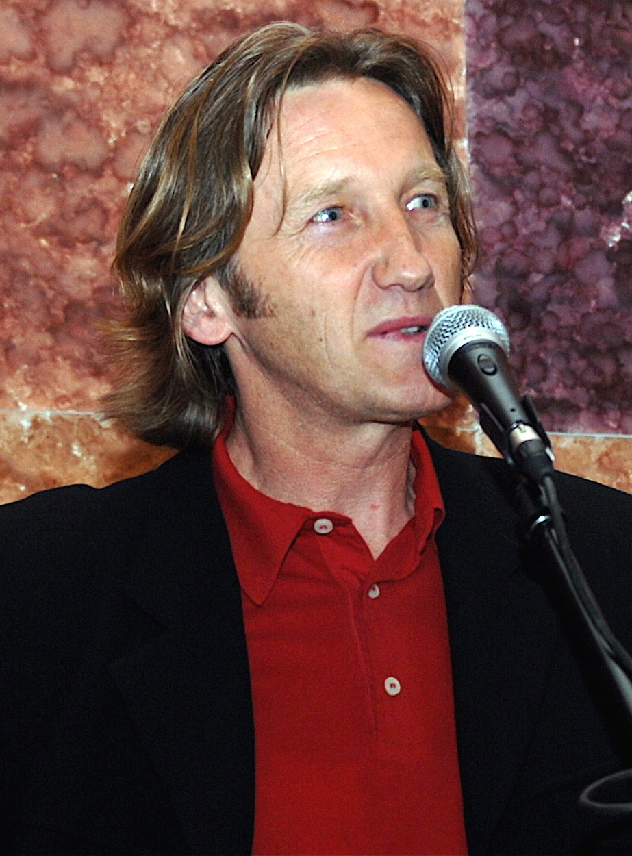 Josef Trattner, Künstlerhaus Wien, 2008